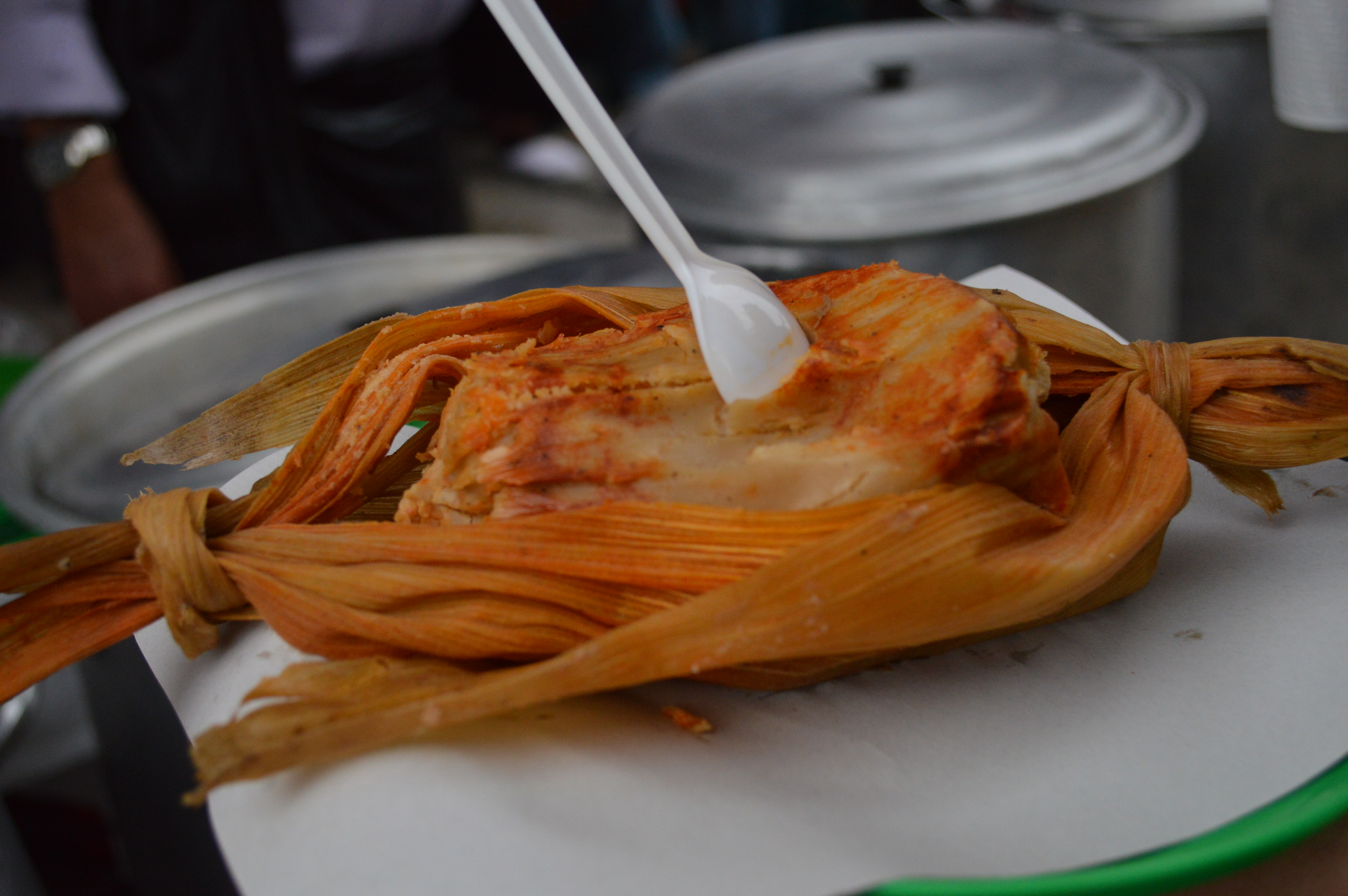 Chiapas style tamale called "bola" sold by a street vendor in Coyoacan Mexico City